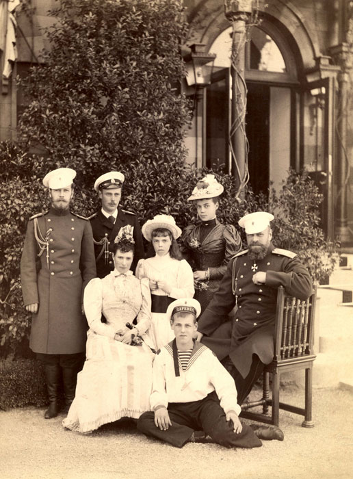 Family of Alexander III. of Russia, Small Palace of Livadia.